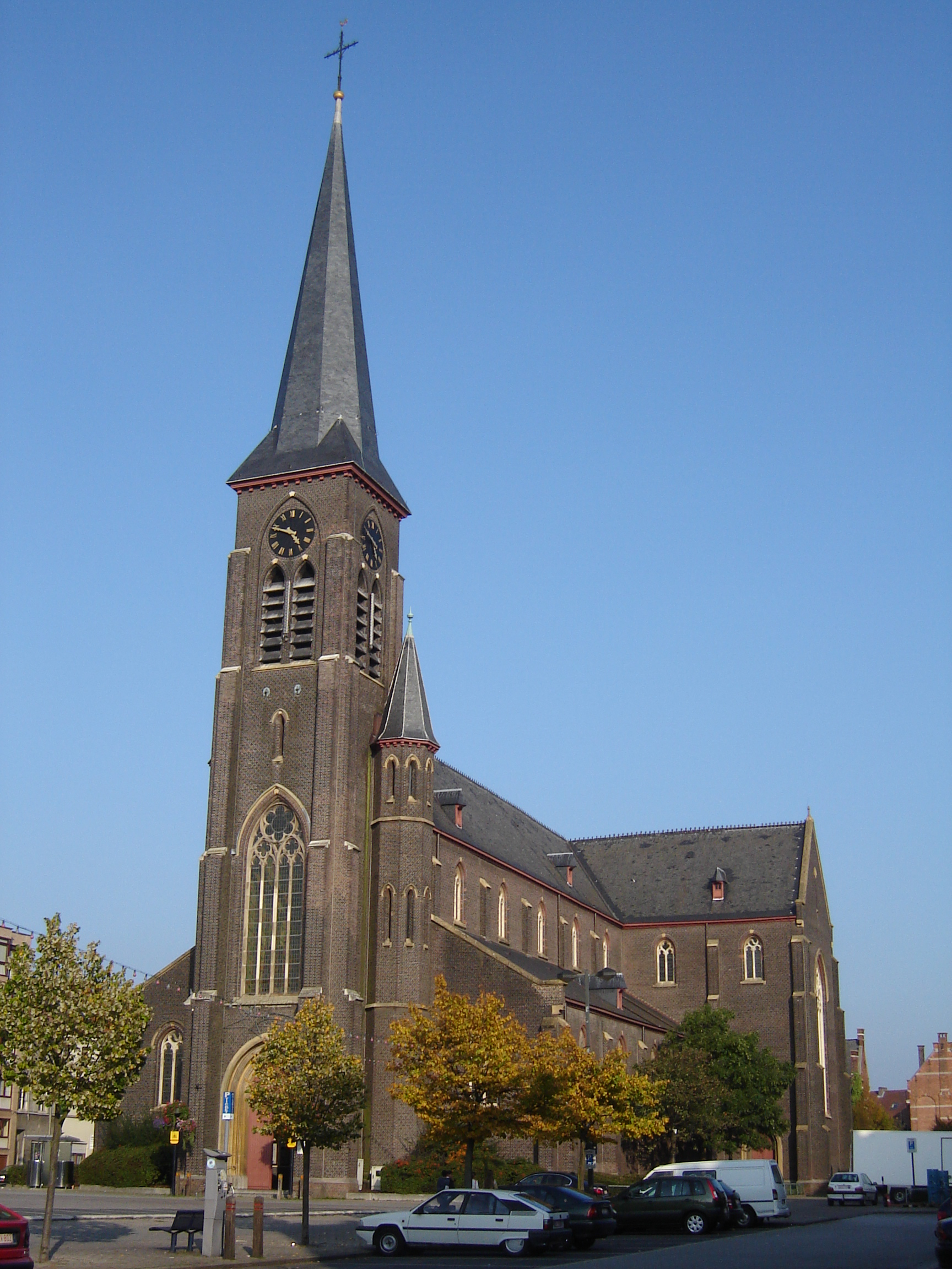 Church of Saint Livinus in Ledeberg, Gent. Gent, East Flanders, Belgium.